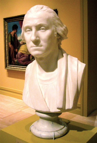 Jean-Antoine Houdon (France, Versailles, 1741 - 1828) Portrait of George Washington, circa 1786 Sculpture, Marble, 23 1/2 x 13 5/16 x 10 in. (59.69 x 33.66 x 25.4 cm) Purchased with funds provided by Anna Bing Arnold (M.76.106) Wikipedia Loves Art at the Los Angeles County Museum of Art This photo of item # M.76.106 at the Los Angeles County Museum of Art was contributed under the team name "artifacts" as part of the Wikipedia Loves Art project in February 2009. Los Angeles County Museum of Art The original photograph on Flickr was taken by Beesnest McClain—please add a comment to the original Flickr page whenever a use has been made on Wikipedia or another project. Project galleries on Flickr: this institution, this team